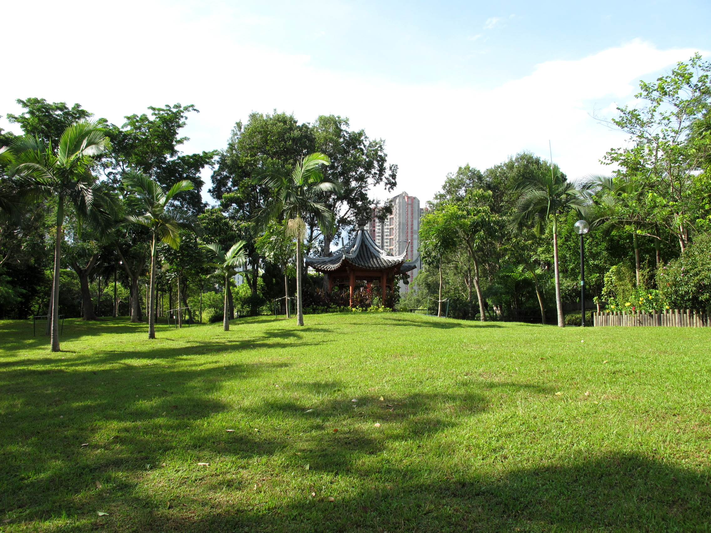 North District Park Open grass area